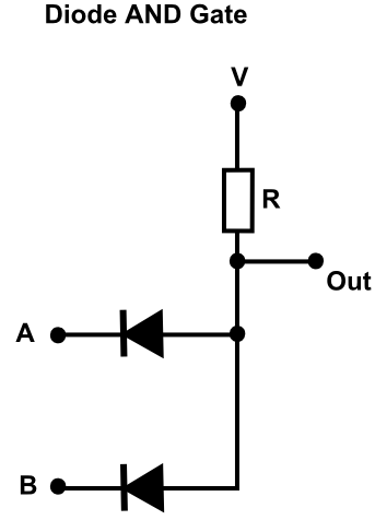 diagram of a diode AND gate. Reference